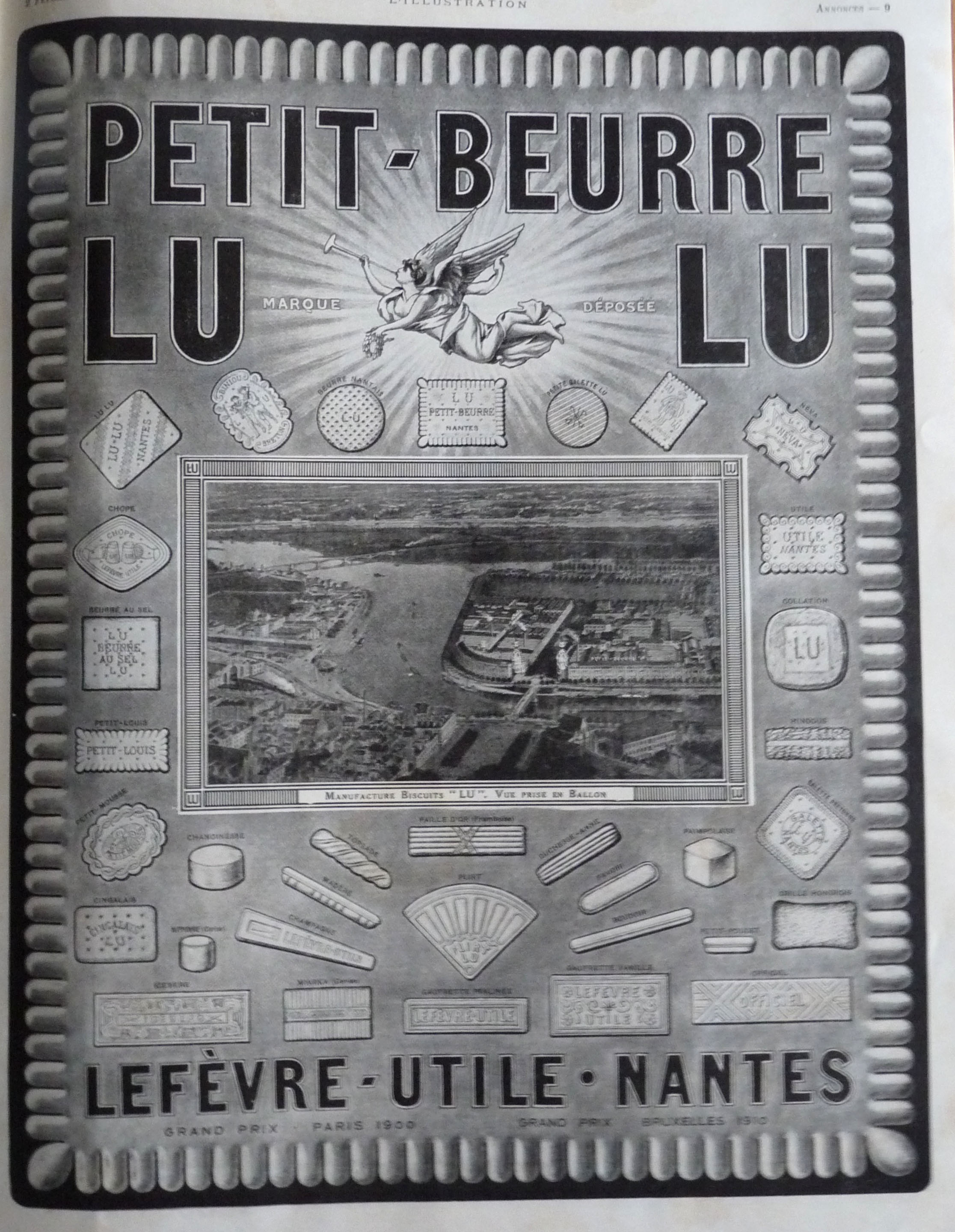 Petit-beurre LU : advertisement of 1924